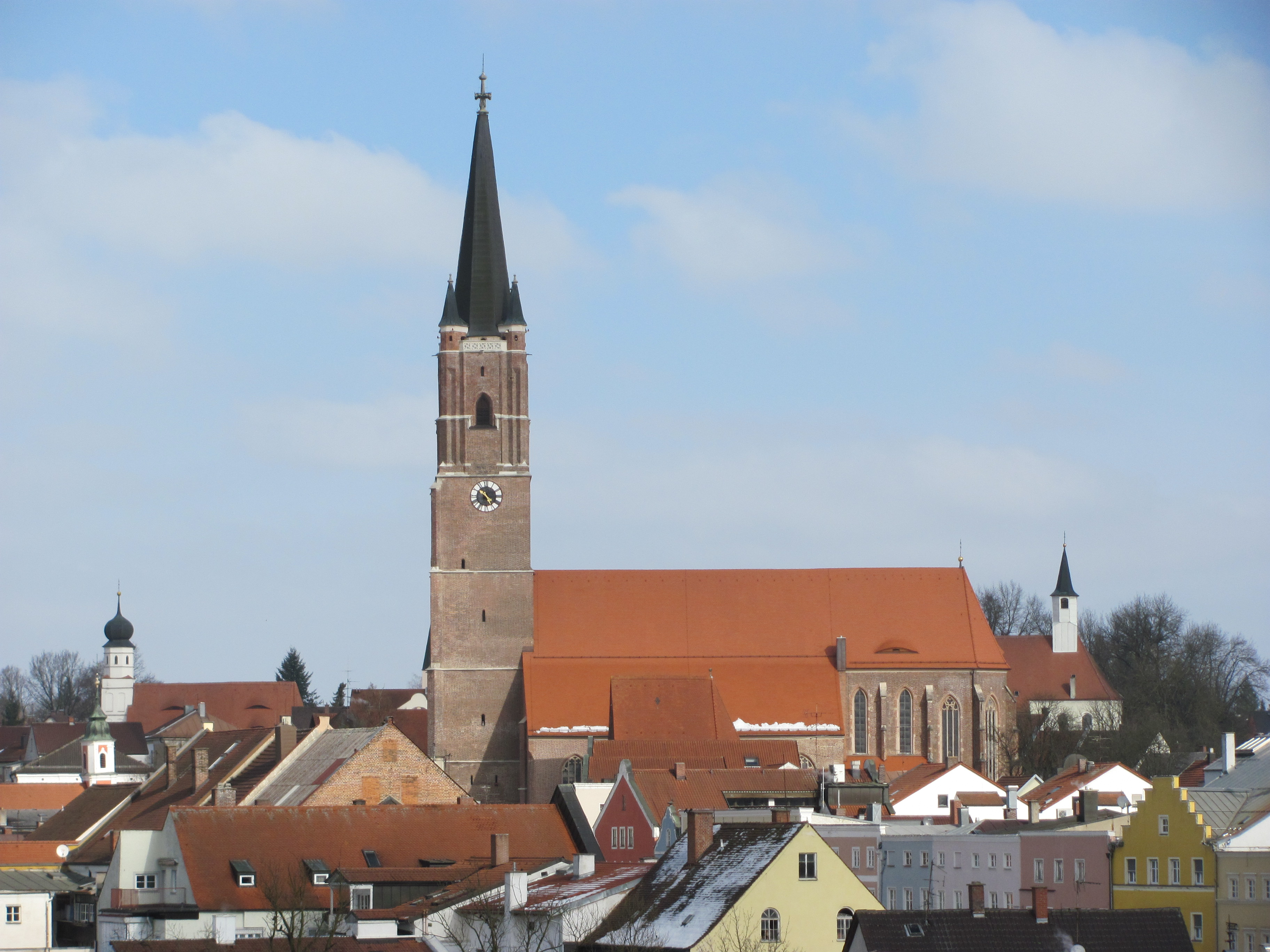 Church of St. Niclas and St. Stephan in Eggenfelden, Bavaria, Germany